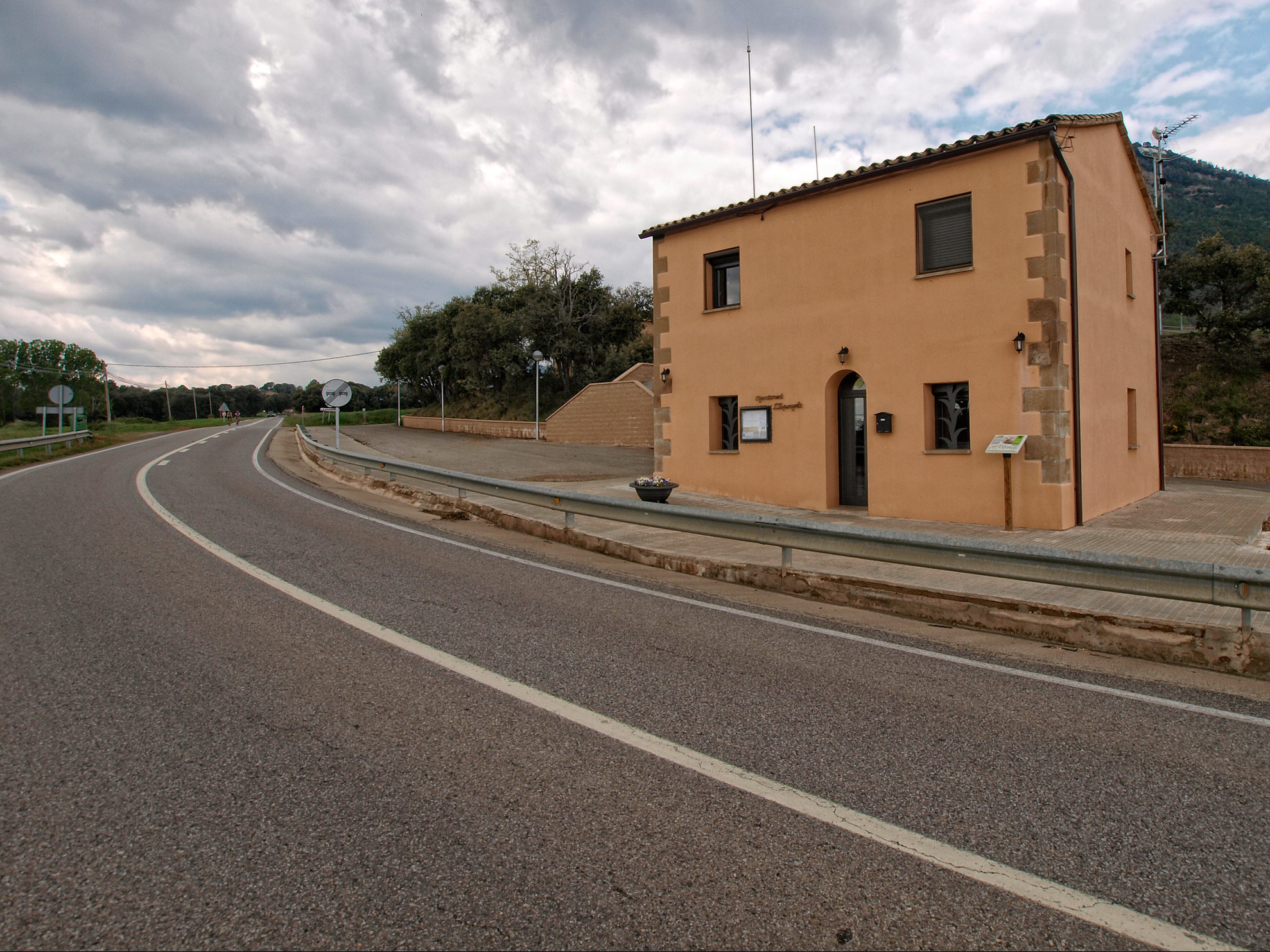 City Council from L'Espunyola (Catalonia, Spain)